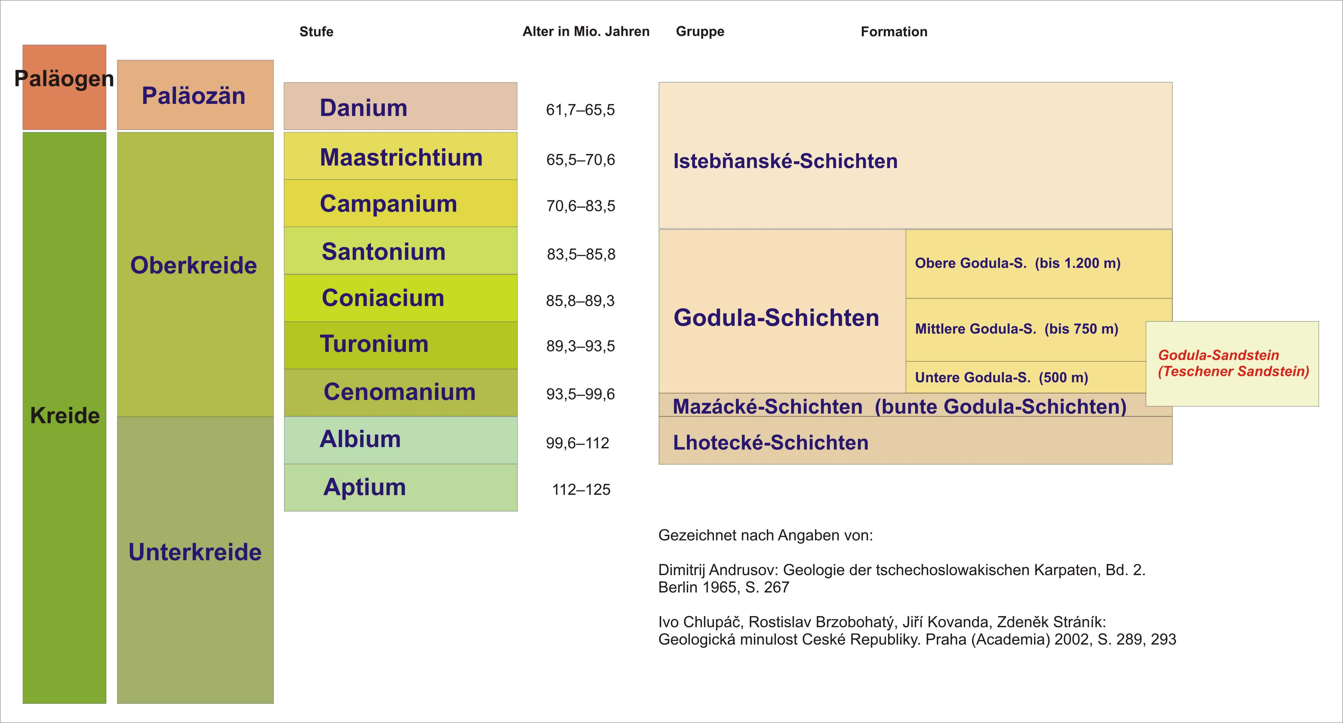 Stratigrafic system of Godula beds, (Beskids)